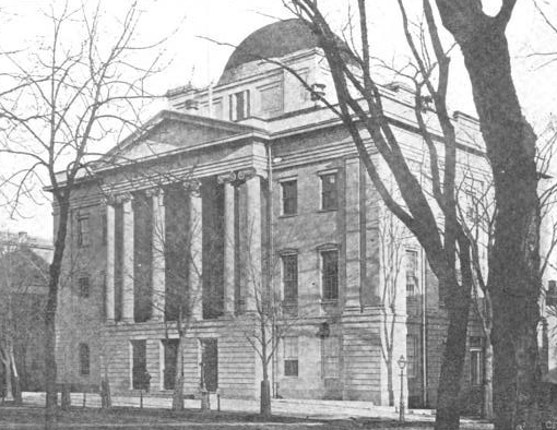 Photograph of Albany City Hall. This building was built opened in 1832. It was designed by Philip Hooker. Destroyed by fire in 1880.